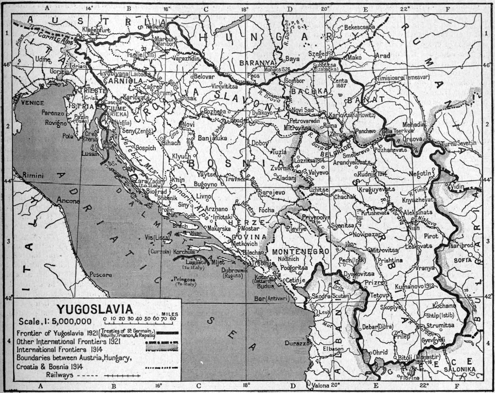 Political map of Yugoslavia